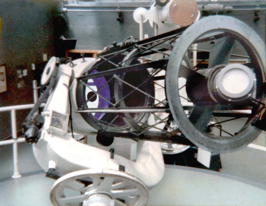 24 inch convertible Newtonian/Cassegrain reflecting telescope on display in the Franklin Institute rooftop observatory (has since been moved to another location).